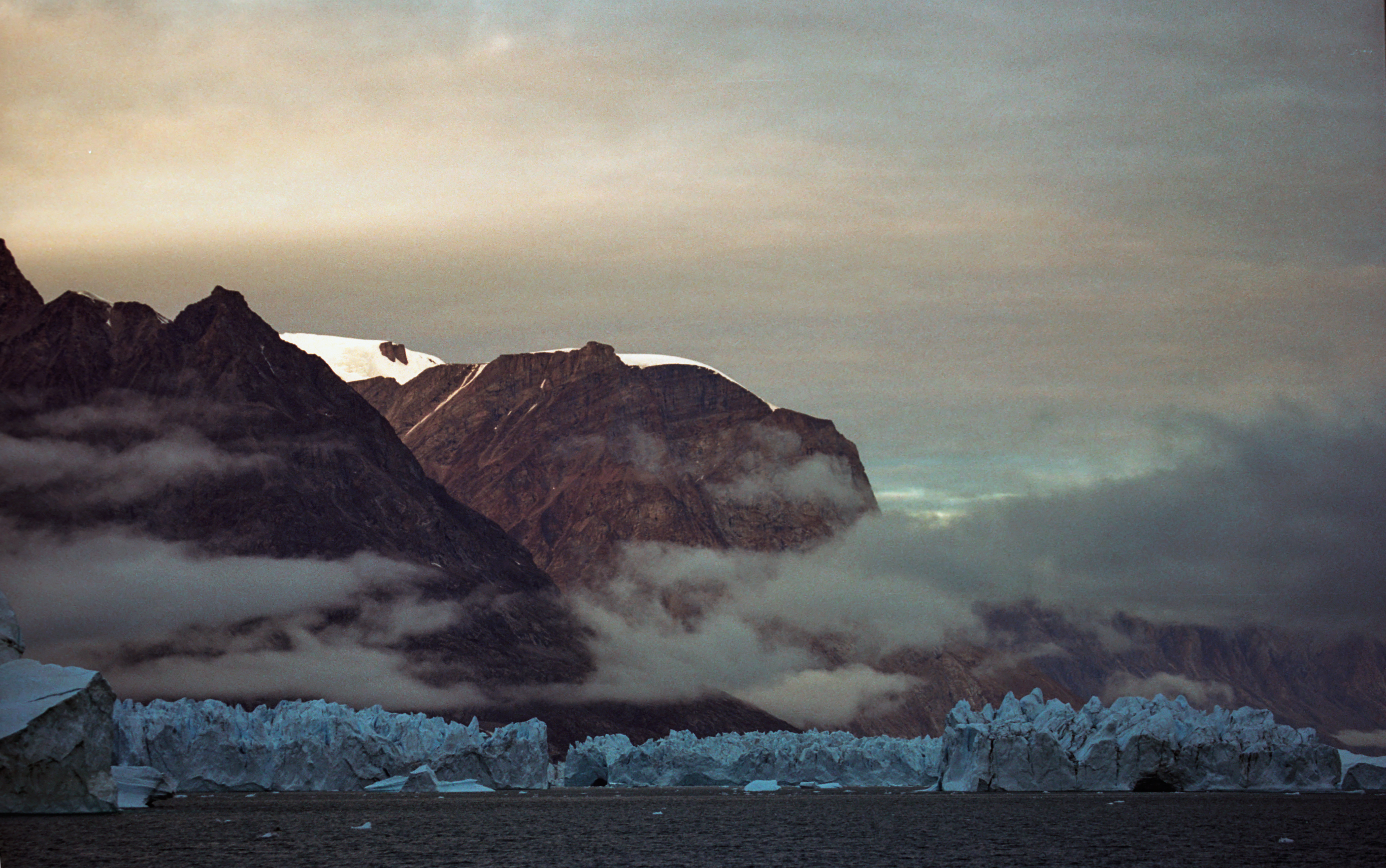 Greenland, Antarctic Sund